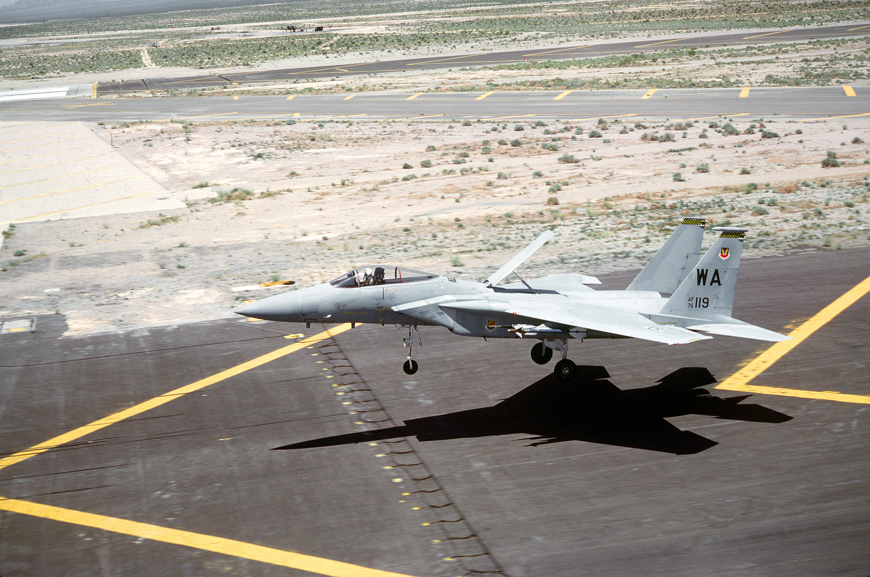 A left front view of an F-15 Eagle aircraft landing with the speed brake up. An AIM-9L Sidewinder is mounted on the left wing. The aircraft is assigned to the 433rd Fighter Weapons Squadron. Location: NELLIS AIR FORCE BASE, NEVADA (NV) UNITED STATES OF AMERICA (USA)